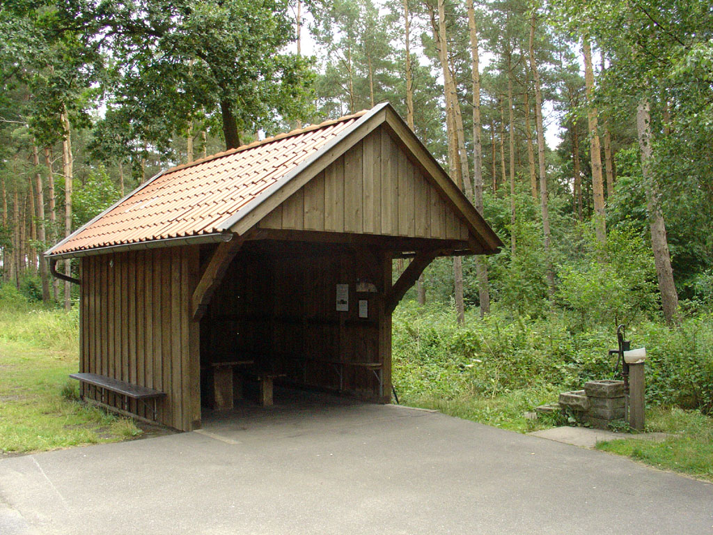 Protection barrack at the cycletour R1 in Marienfeld